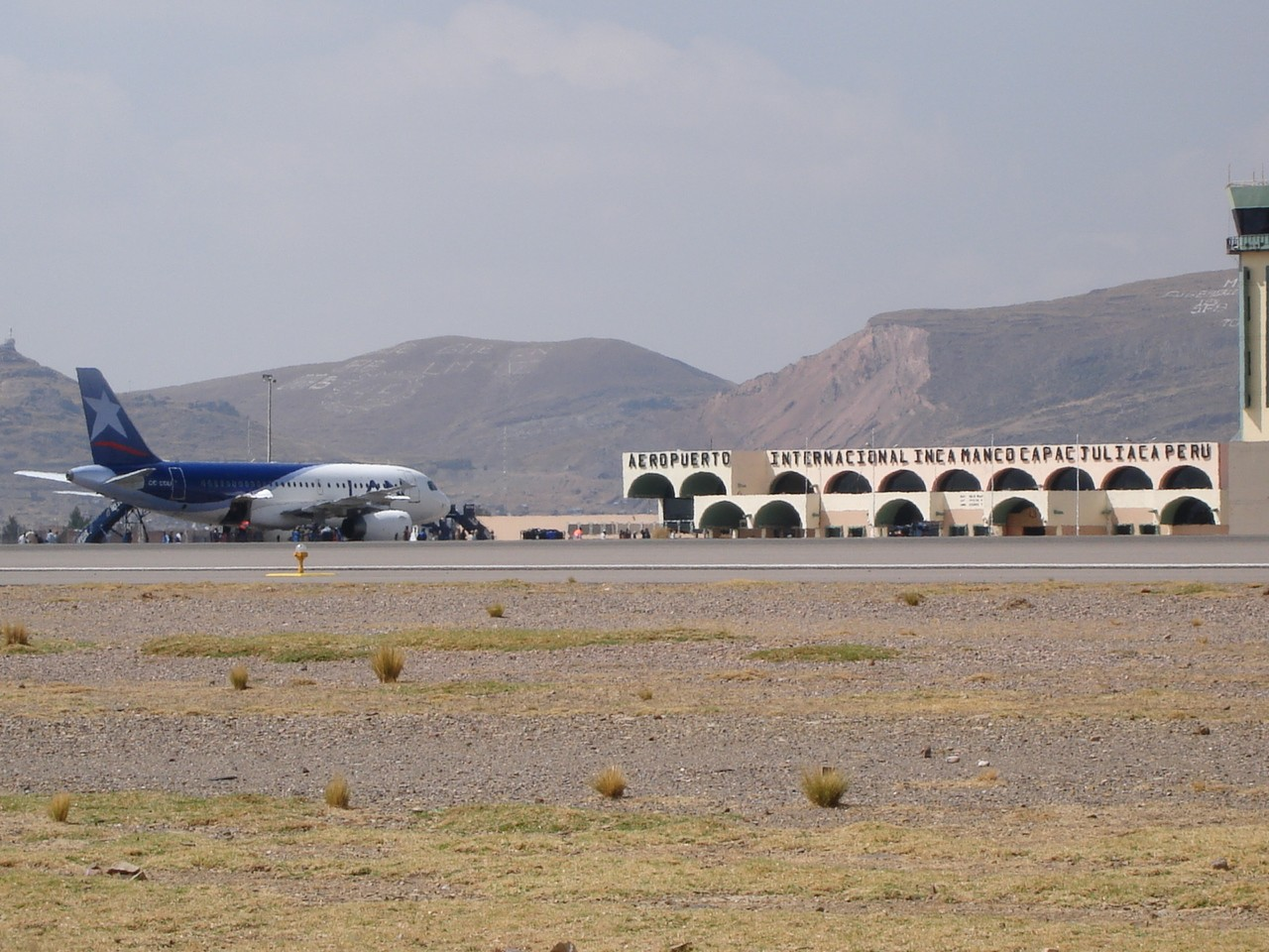 Airfield at Juliaca, longest in Latin America (province of Puno, Peru)